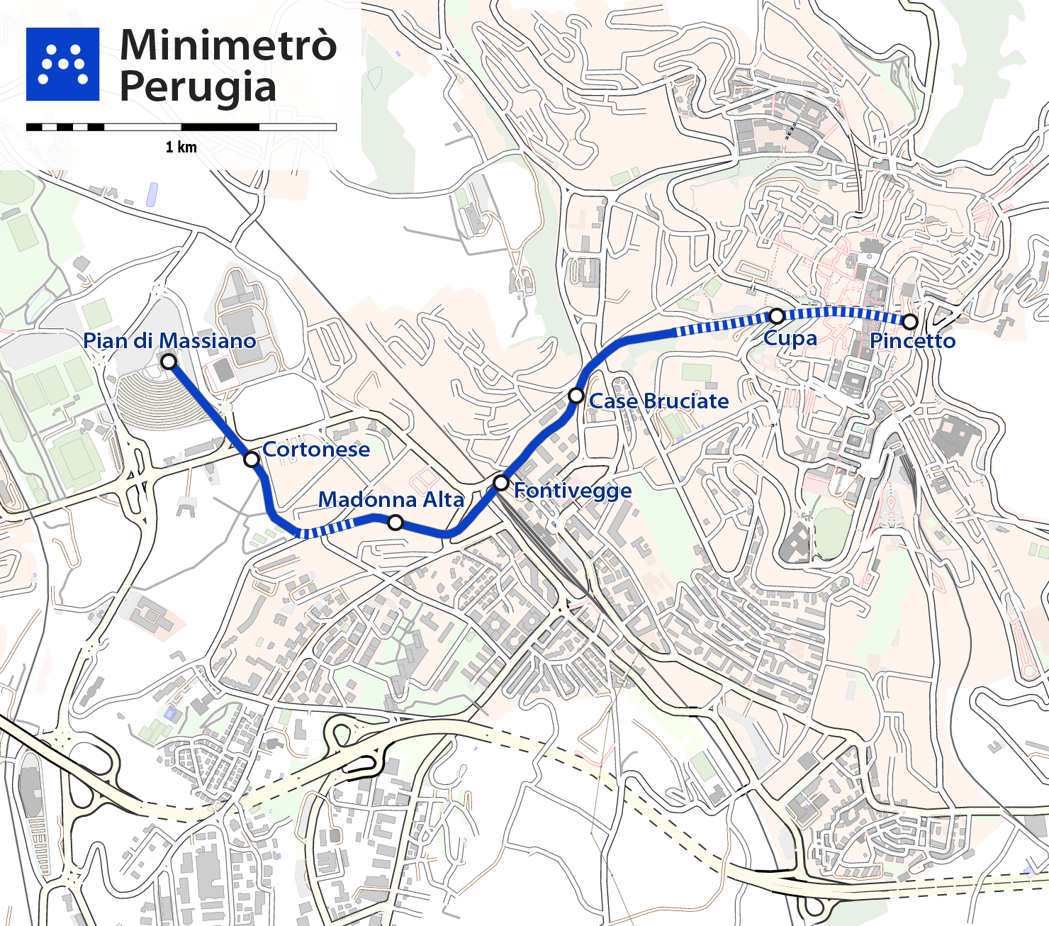 Map of the Perugia mini metro